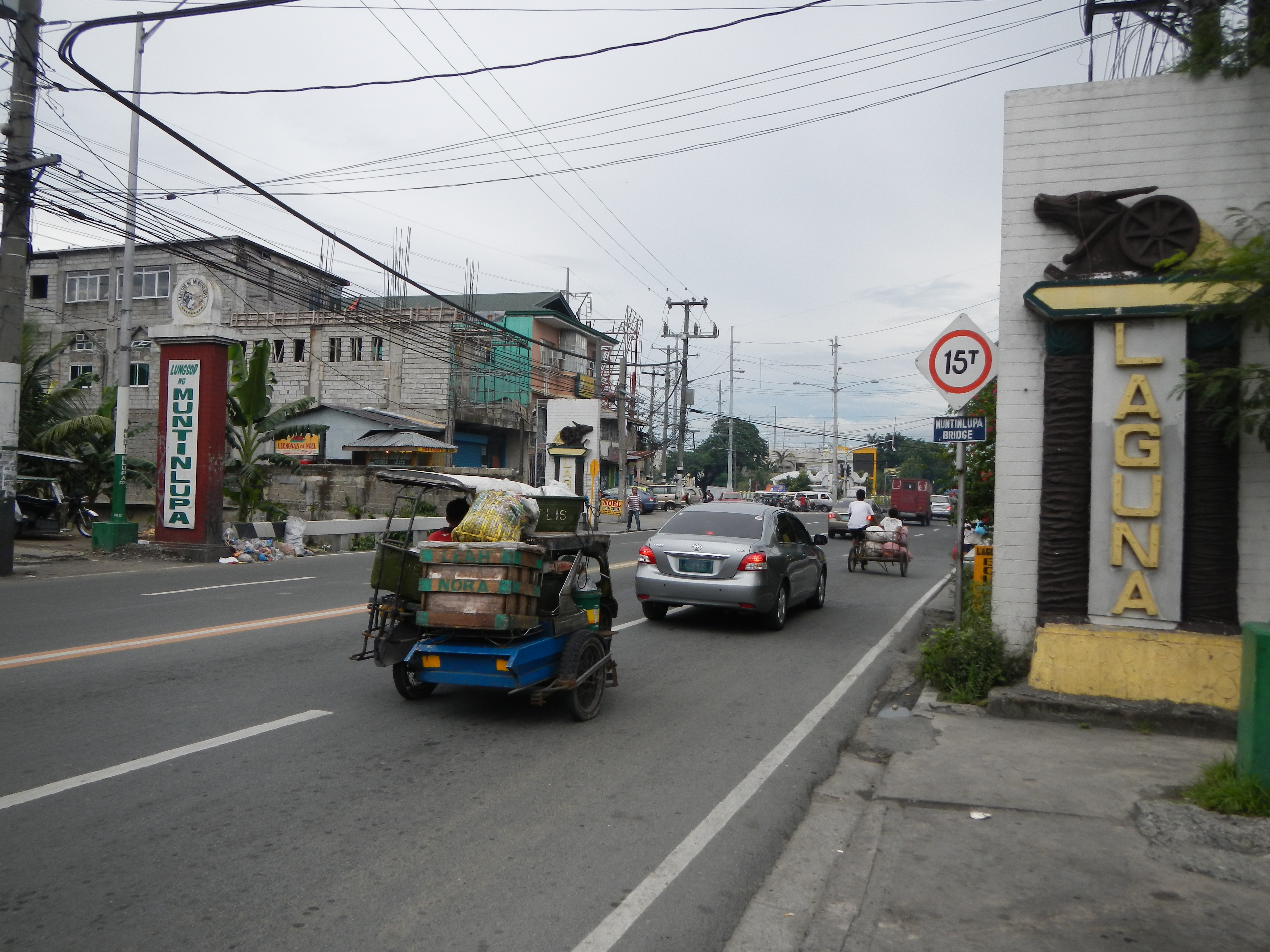 Welcome markers & Signs (including the San Pedro Chicken or Rooster Statue as symbol of the City) - Provincial Boundary of Laguna --- San Pedro, Laguna [1] San Pedro City, or officially known as the City of San Pedro and Metropolitan Manila (Barangay Tunasan, Muntinlupa City) Bridge - Muntinlupa / San Pedro Boundary Coordinates: 14°22'8"N 121°3'0"E Philippines / Southern Tagalog / San Pedro / Barangay Tunasan, Muntinlupa [2]Muntinlupa [3] The City of Muntinlupa[2] (Filipino: Lungsod ng Muntinlupa) is the southernmost city in Philippine National Capital Region. National Road - Pan-Philippine Highway.[4]